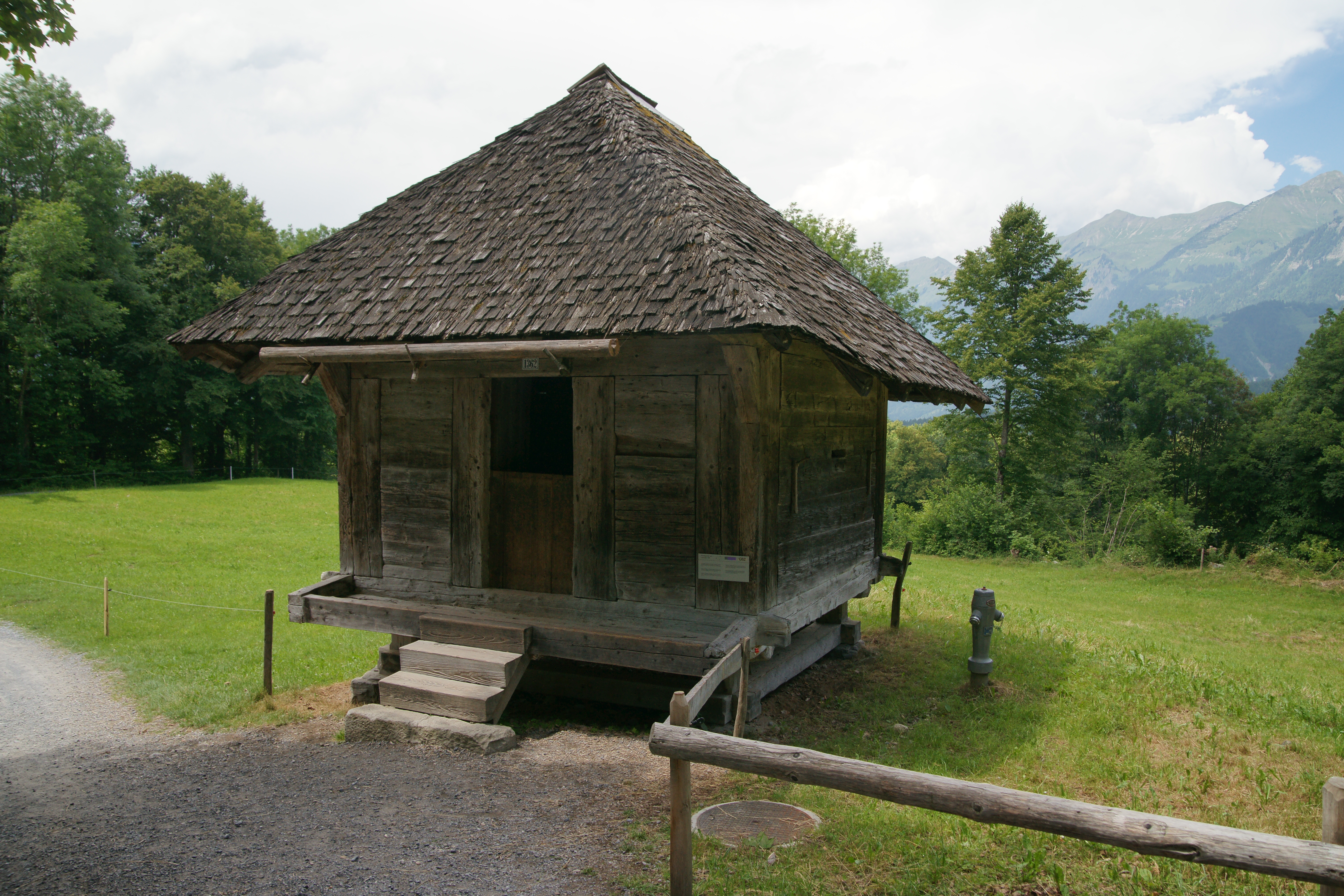 Swiss Open Air Museum Ballenberg: Cheese storehouse of Leissigen / BE (1778)